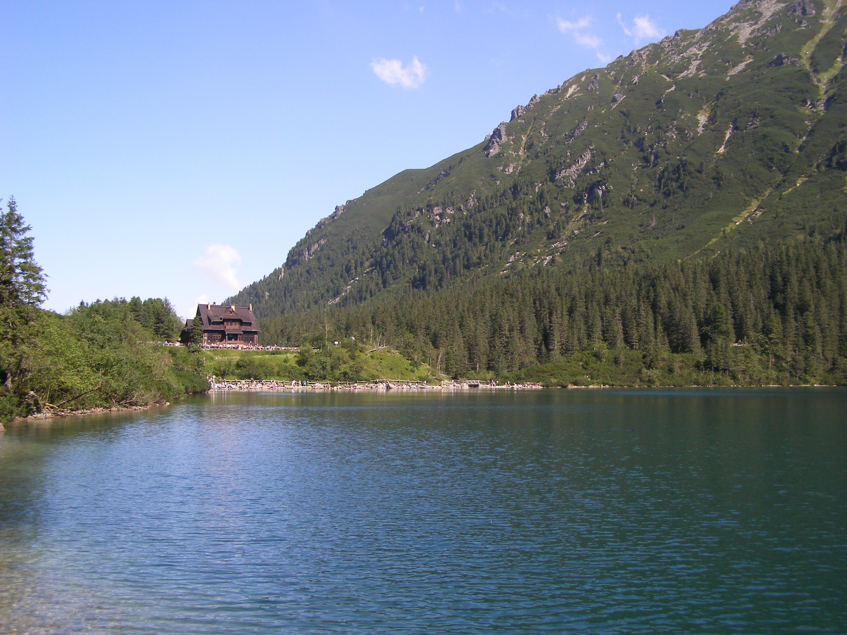 Tatra National Park - Morskie Oko